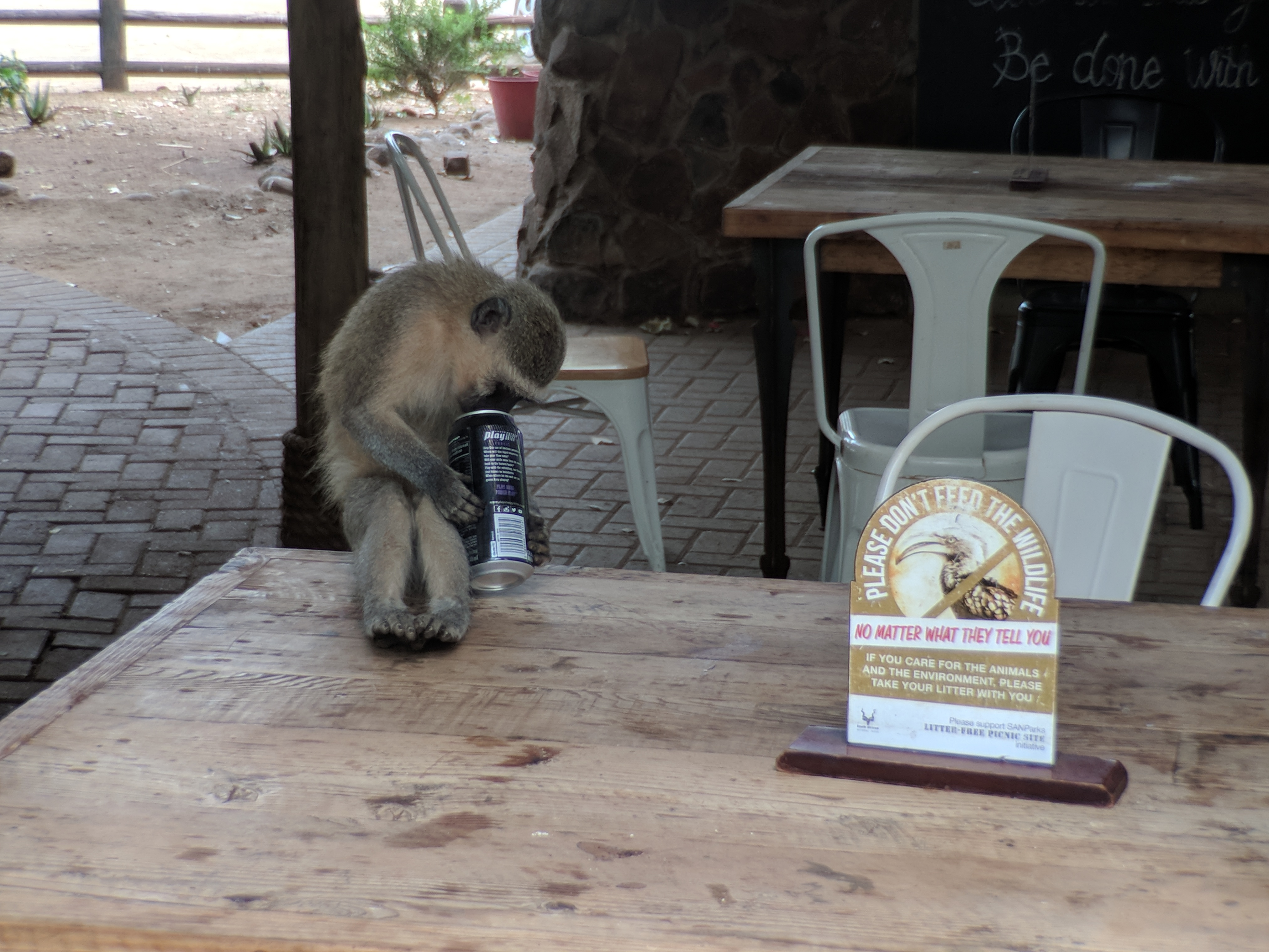 Vervet monkey drinking a Play energy drink stolen from a patron at Tshokwane picnic site, Kruger